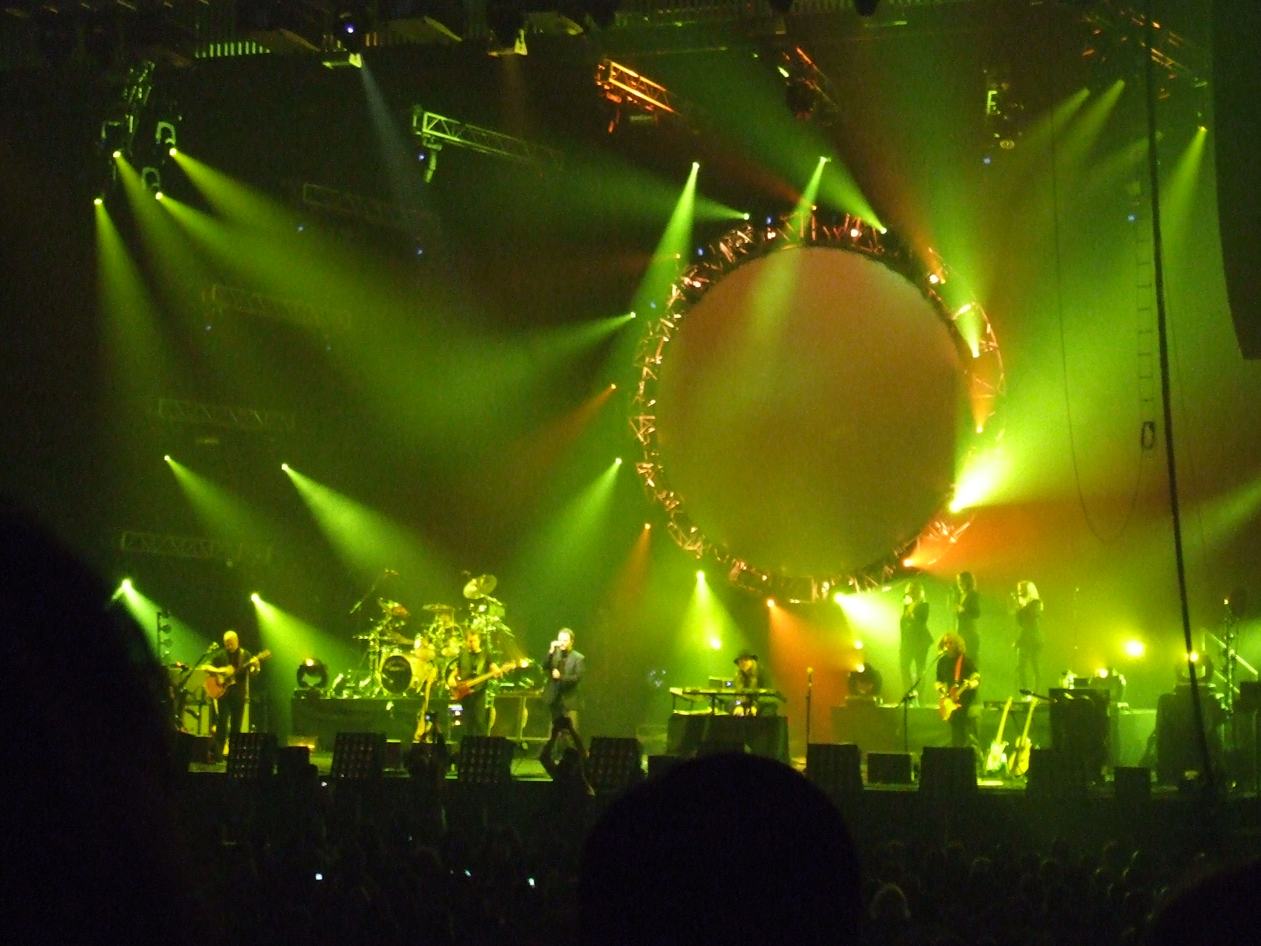 Australian Pink Floyd Show in Bratislava